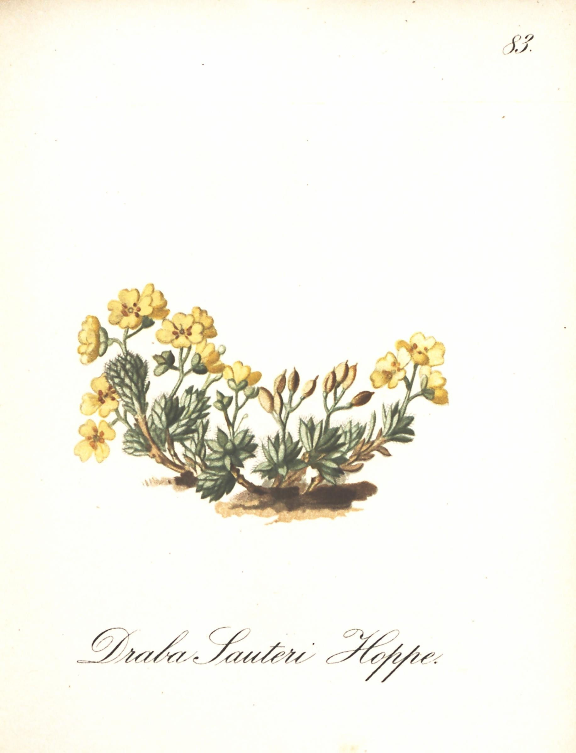 &. .._./.. c ?s//s/ - ^Za/t&te S/S//S.